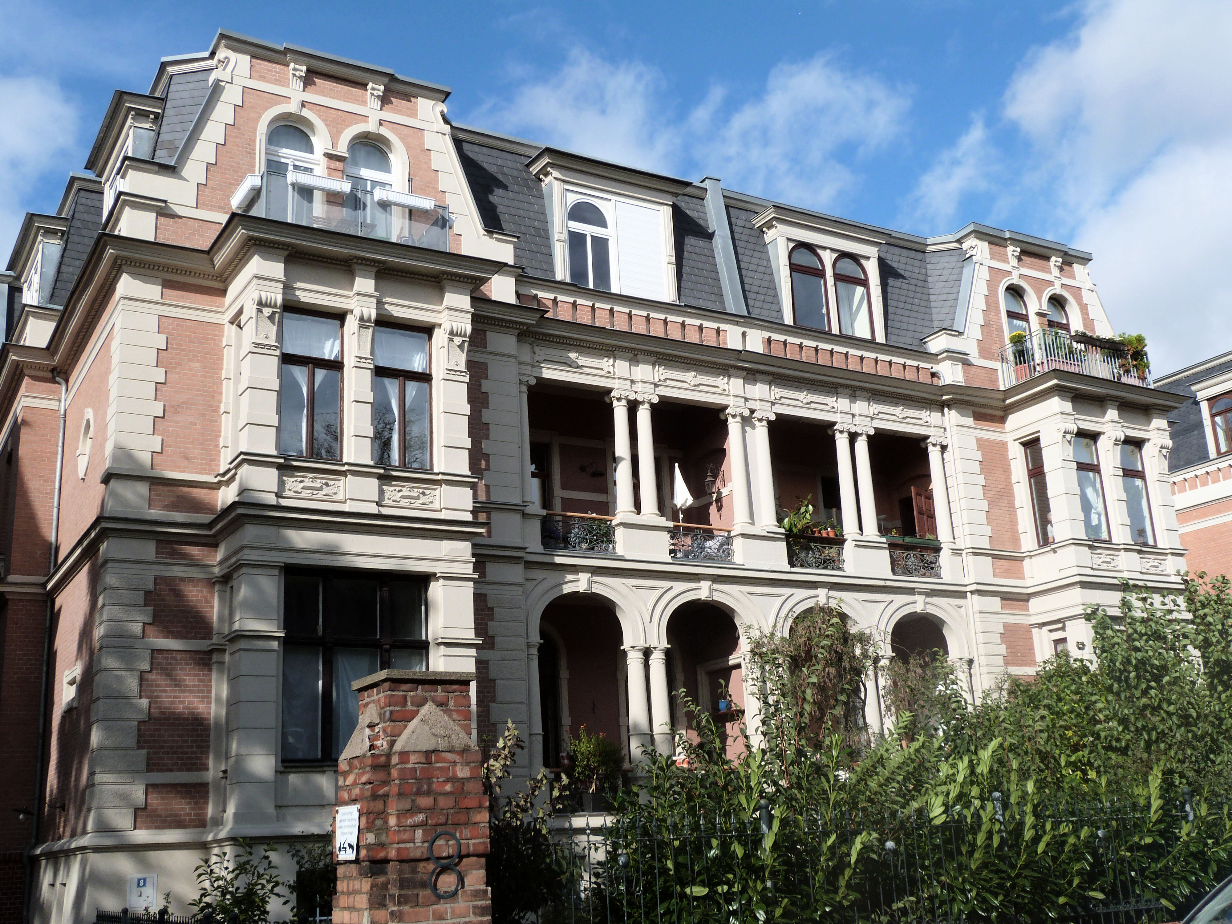 Houses No. 7 and 8 Schillerstrasse in Halle (Saale)